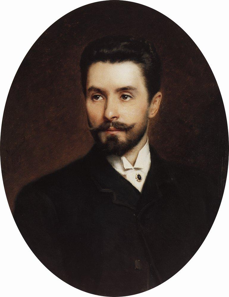 Portrait of Russian opera singer Nikolay Figner